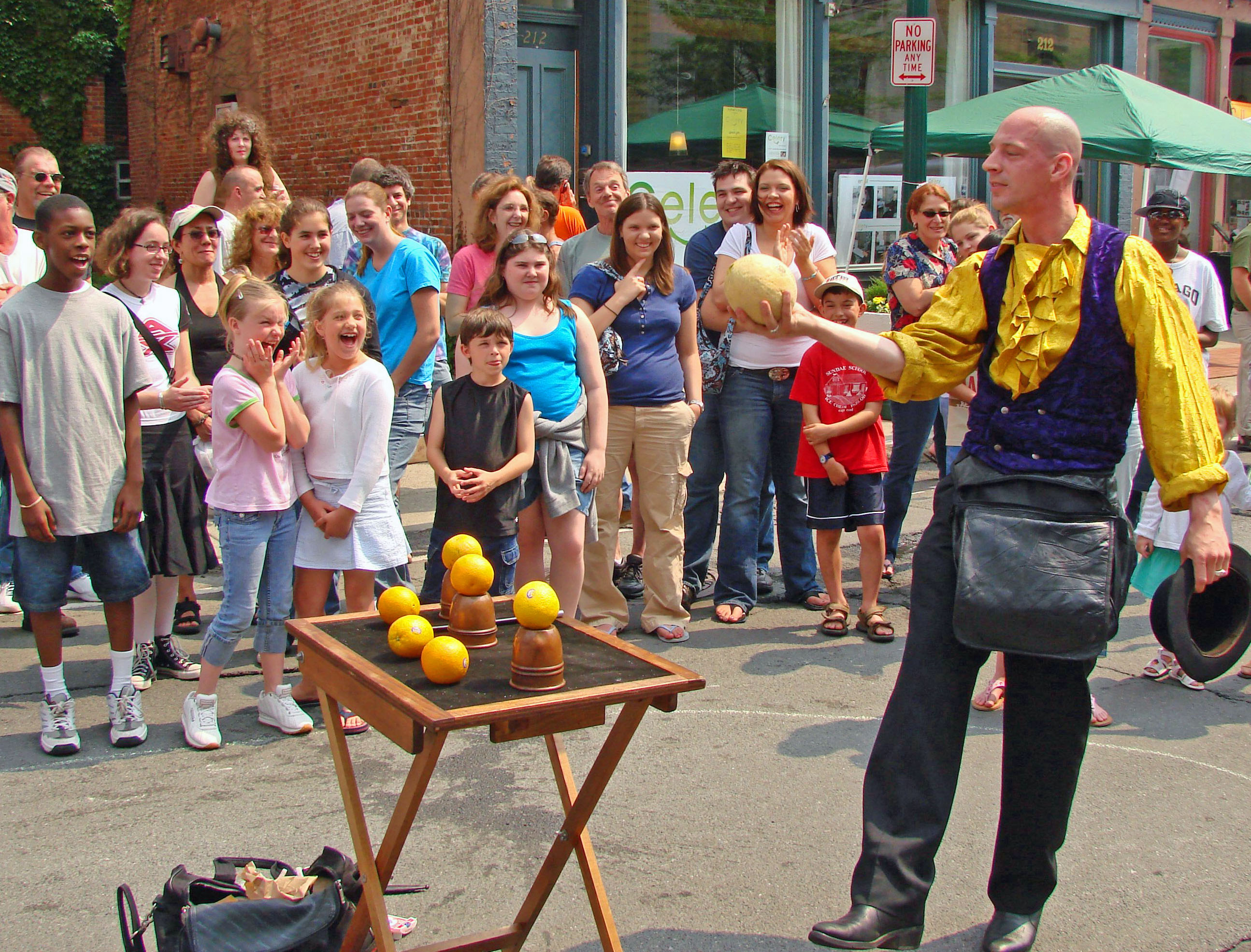 Street magician performing during Riverfest 2006 in downtown Troy, NY, USA